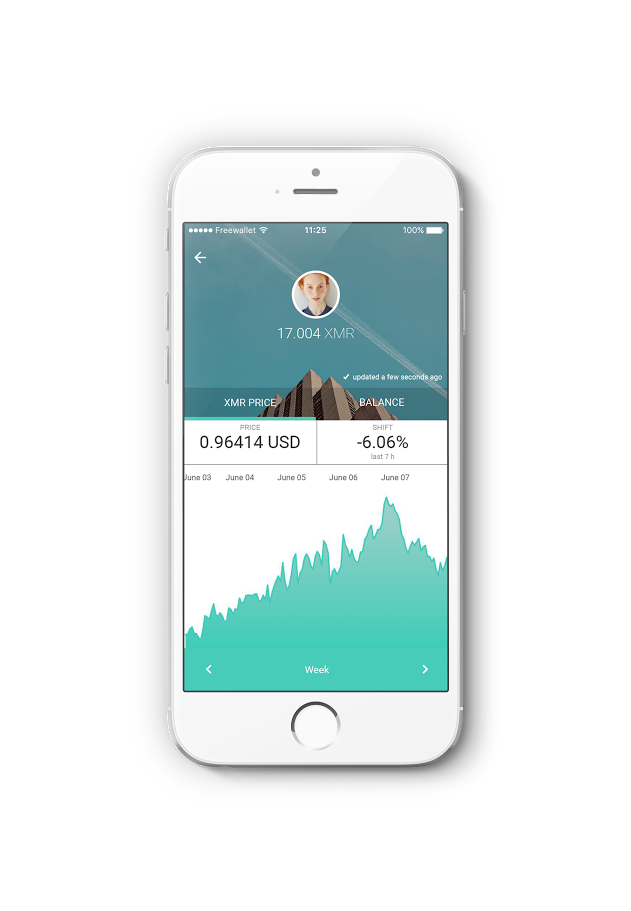 This is a screenshot of the Monero Wallet's UI by Freewallet